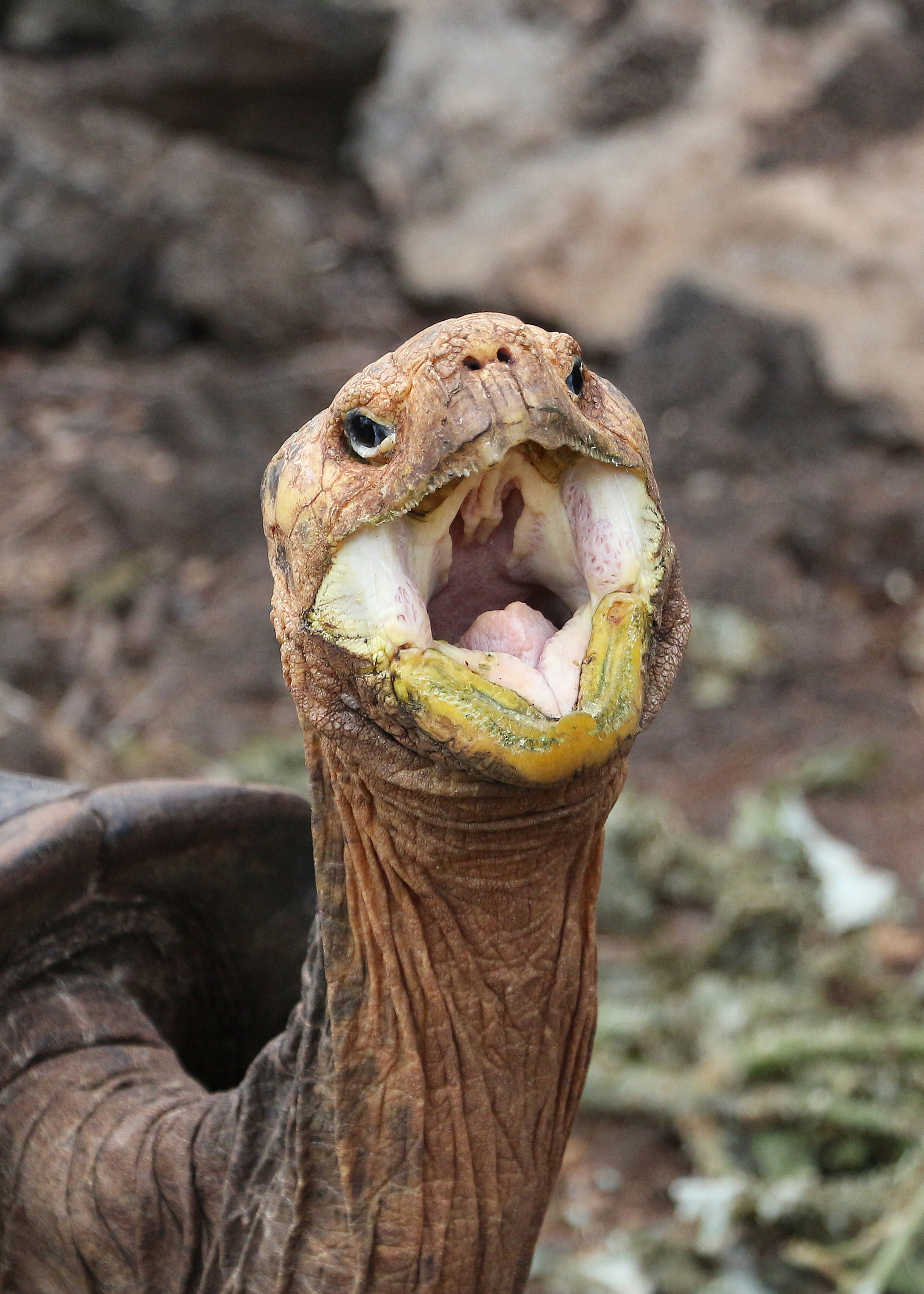 Chelonoidis vicina in the Charles Darwin Research Station, Santa Cruz Island, Galápagos National Park, Ecuador